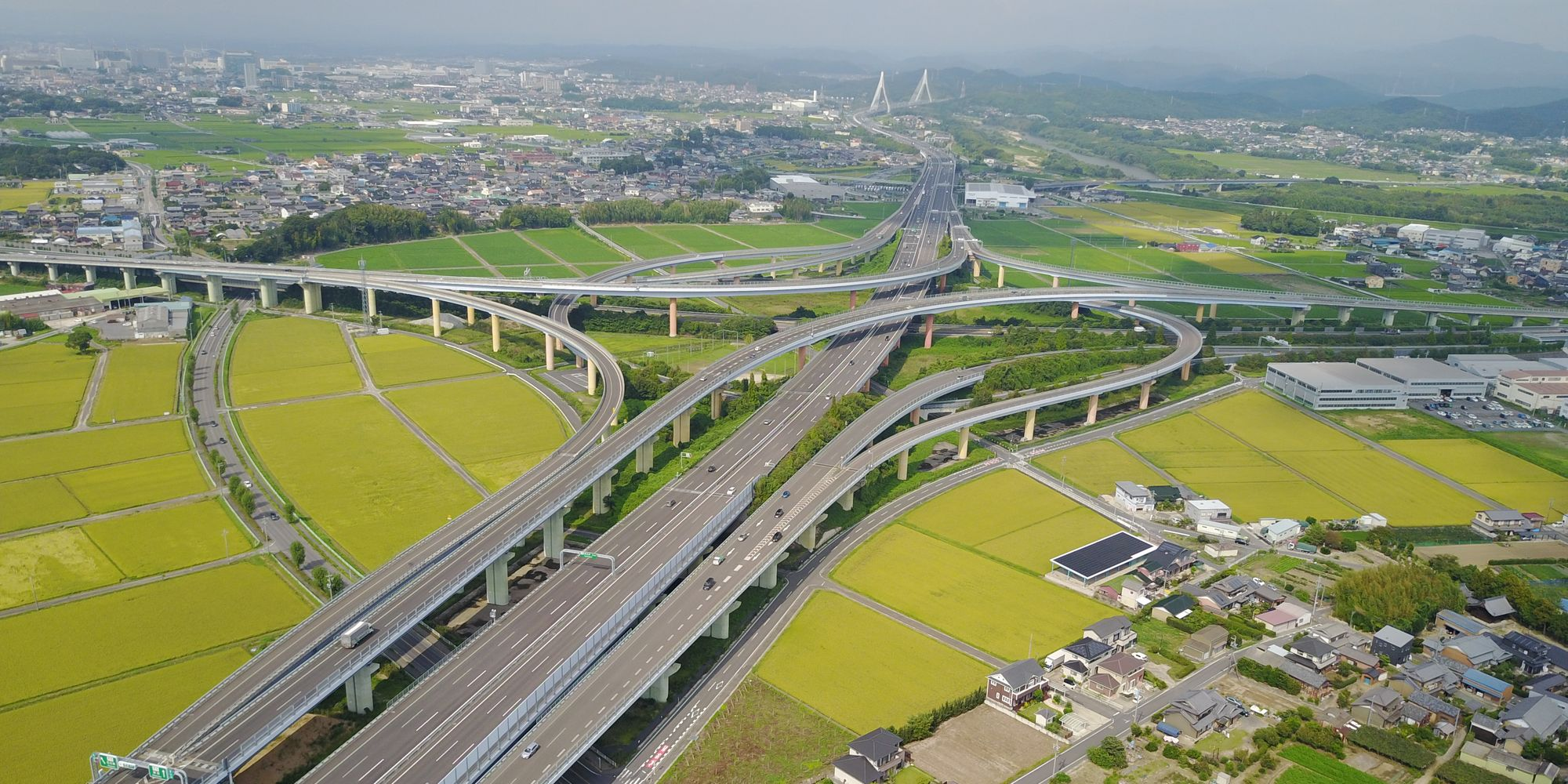 TOYOTA Interchange on TOMEI EXPWY and SHIN-TOMEI EXPWY ( TOYOTA City, AICHI Pref., JAPAN)